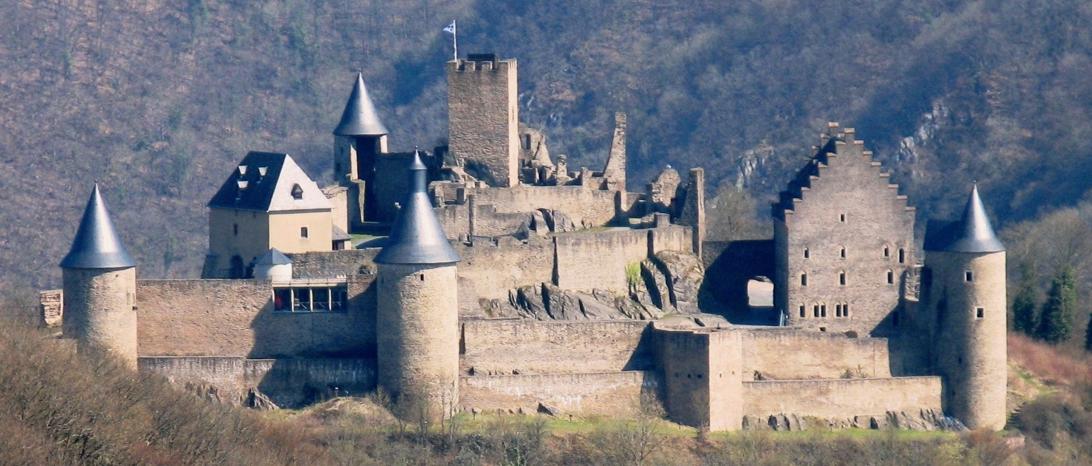 Bourscheid castle